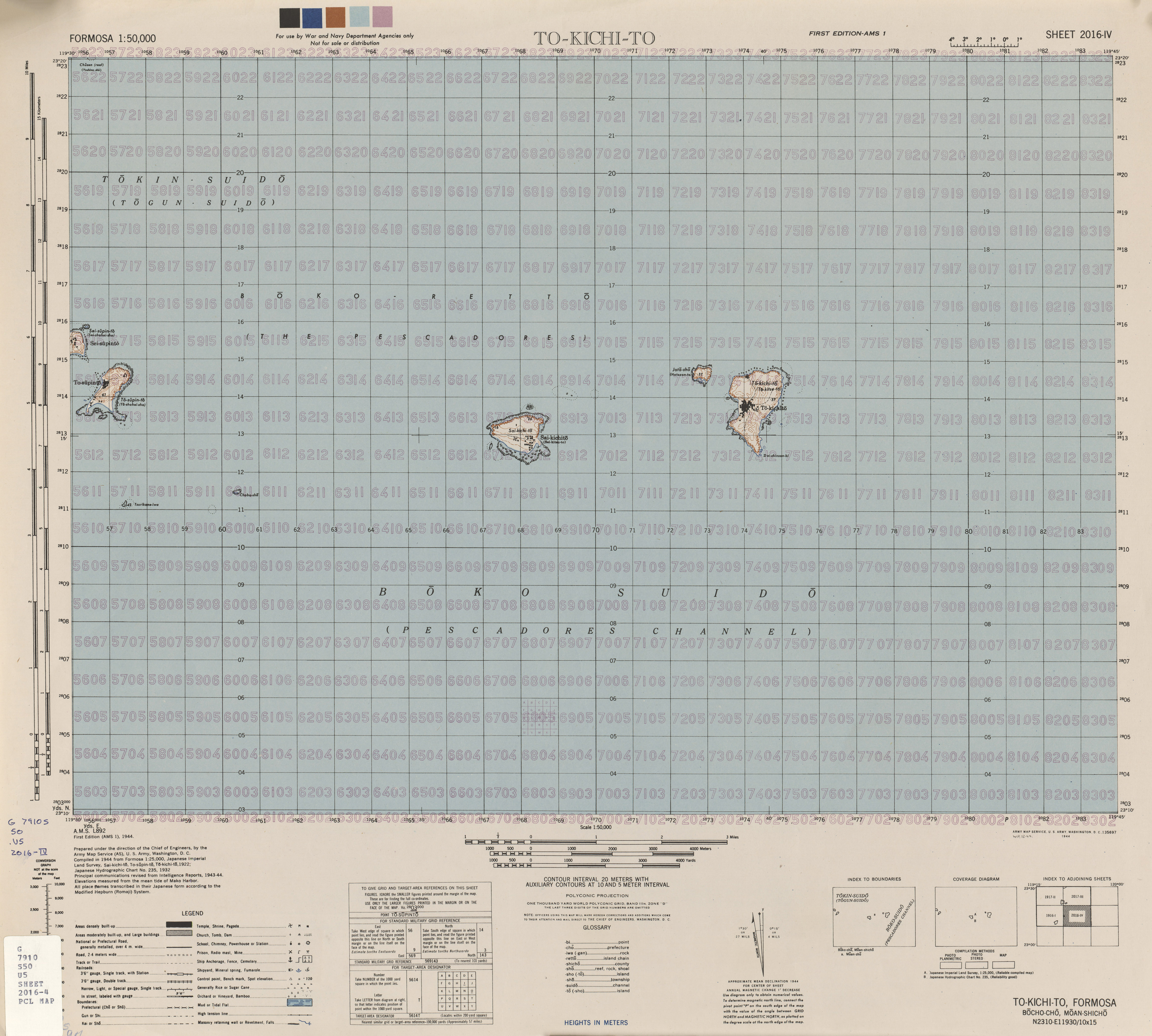 Map of Dongji Island (Tō-kichi-tō, Tō-kitsu-tō) area, Wangan Township, Penghu County (the Pescadores), Taiwan from Series L792